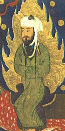 Timuridic representation of Mohammed.